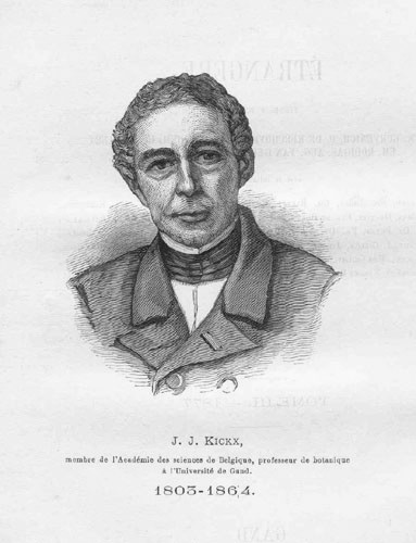 Jean Kickx (1803-1864)